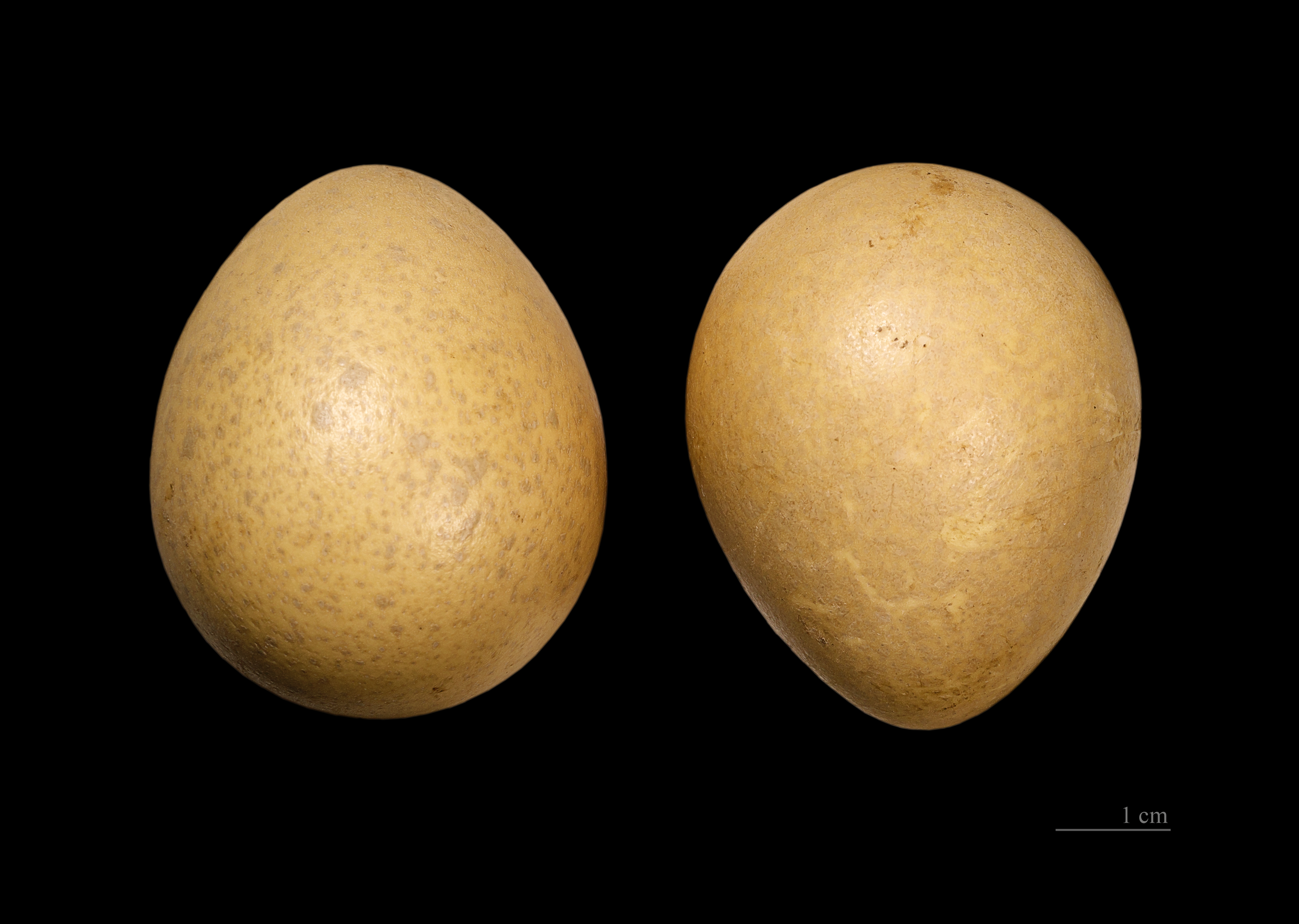 Egg of Helmeted Guineafowl wild form. Collection of René de Naurois/Jacques Perrin de Brichambaut. Locality: Santiago Island Cape Verde. Cape Verde.